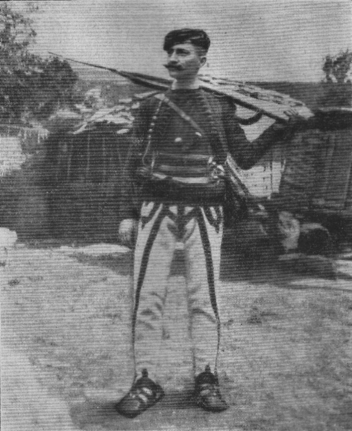 Vojislav Tankosić disguised as an Albanian outside Isa Boletini's house, during talks about cooperation, 1911